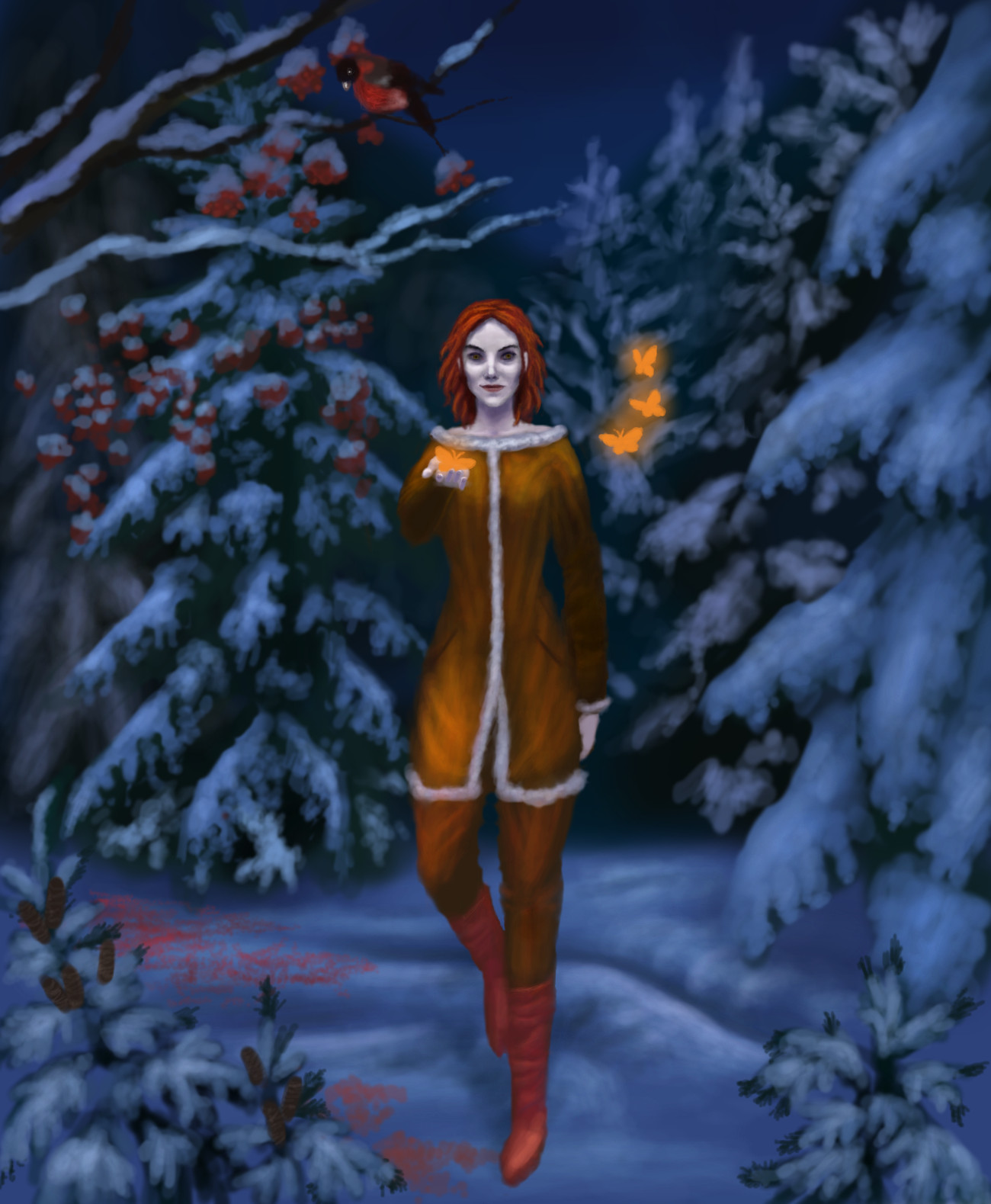 Yule, Godness